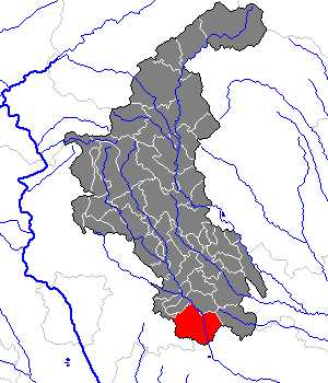 This map shows the area of the Gemeinde (municipality) Sankt Margarethen an der Raab in the Bezirk (district) Weiz, Styria, Austria.